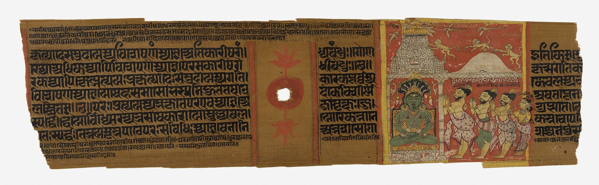 India, Gujarat, circa 1350 Books Ink and opaque watercolor on palm leaf Purchased with funds provided by the Indian Art Special Purpose Fund, Mrs. Wilbur Archer Beckett, Gerald Stockton and S. Louis Gaines, the Christian Humann Fund, Jo Ann and Julian Ganz, Jr., and Dr. and Mrs. Peter S. Bing (M.88.62.1) South and Southeast Asian Art